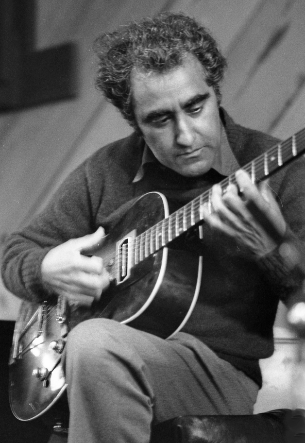 Eddie Duran at Bach Dancing & Dynamite Society, Half Moon Bay CA 4/5/79 w/Cal Tjader. Photo: Brian McMillen /